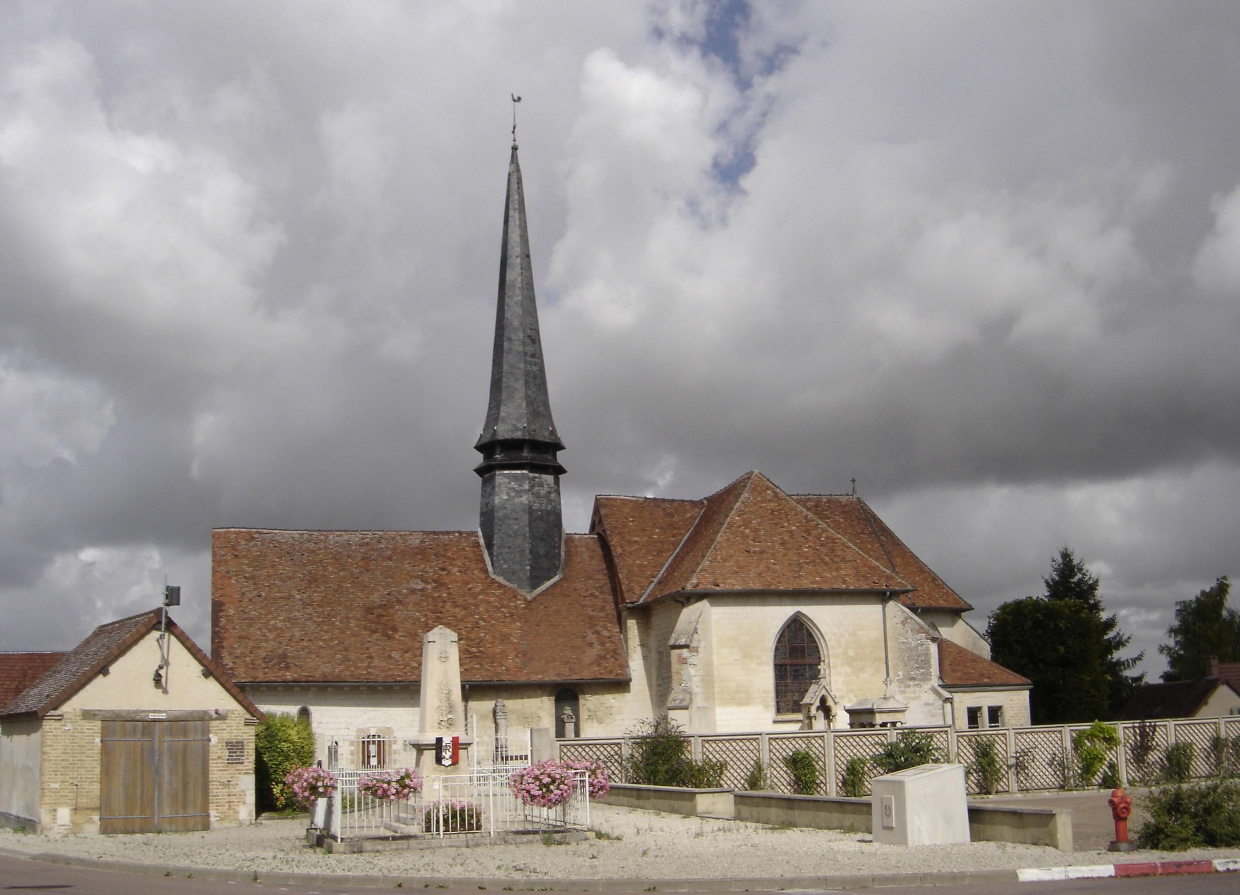 église Saint Léon II de Thennelières - Aube - France